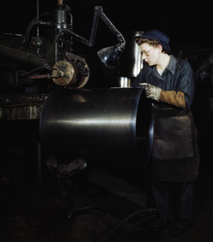 Women War Workers in Britain, 1944 Miss Norris wearing safety spectacles while welding the side seams of drum containers. The containers were used to store the products of a chemical factory run by the Ministry of Supply.